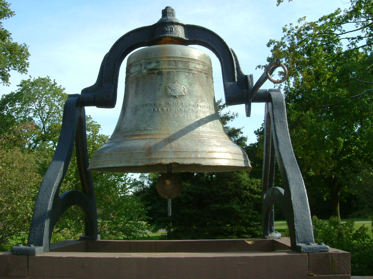 Photograph of the Bowditch Bell at Lake Forest Academy. I took this photo myself and hereby release all rights. Dylan 16:33, 18 December 2005 (UTC)